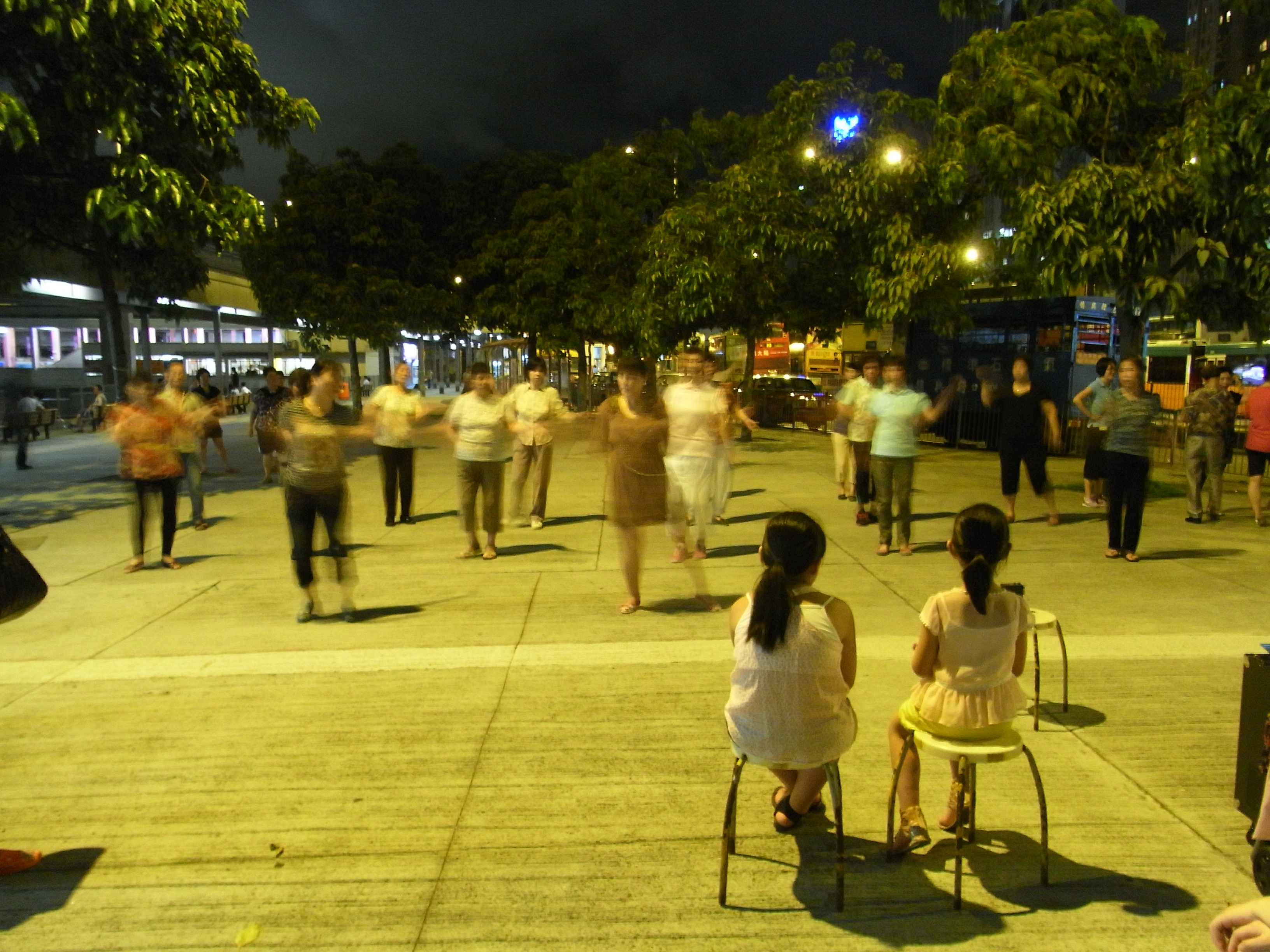 Para Para dancing in North Point Ferry Piers, Hong Kong